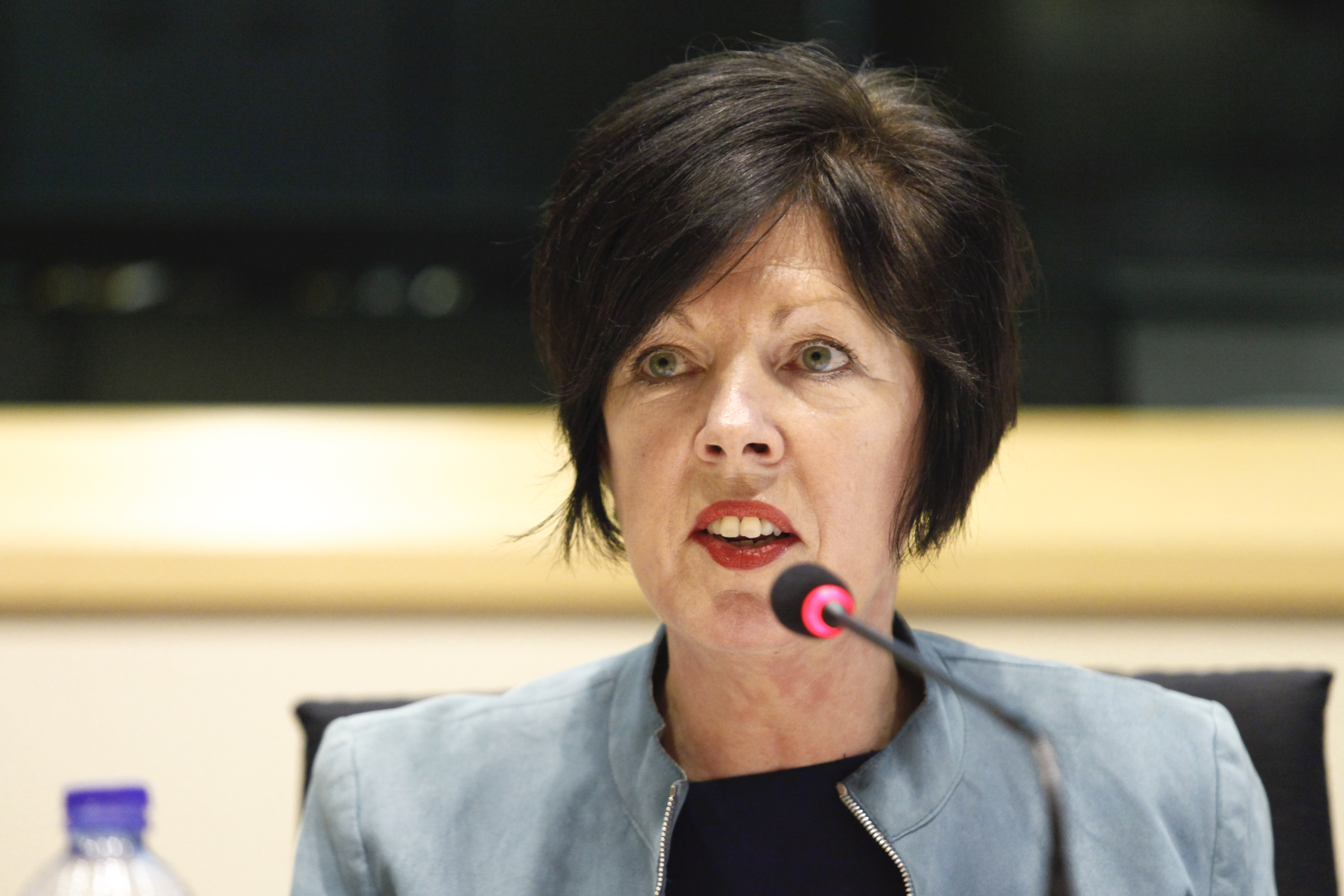 Theresa Griffin MEP speaking in the European Parliament